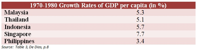 Under the Marcos Era